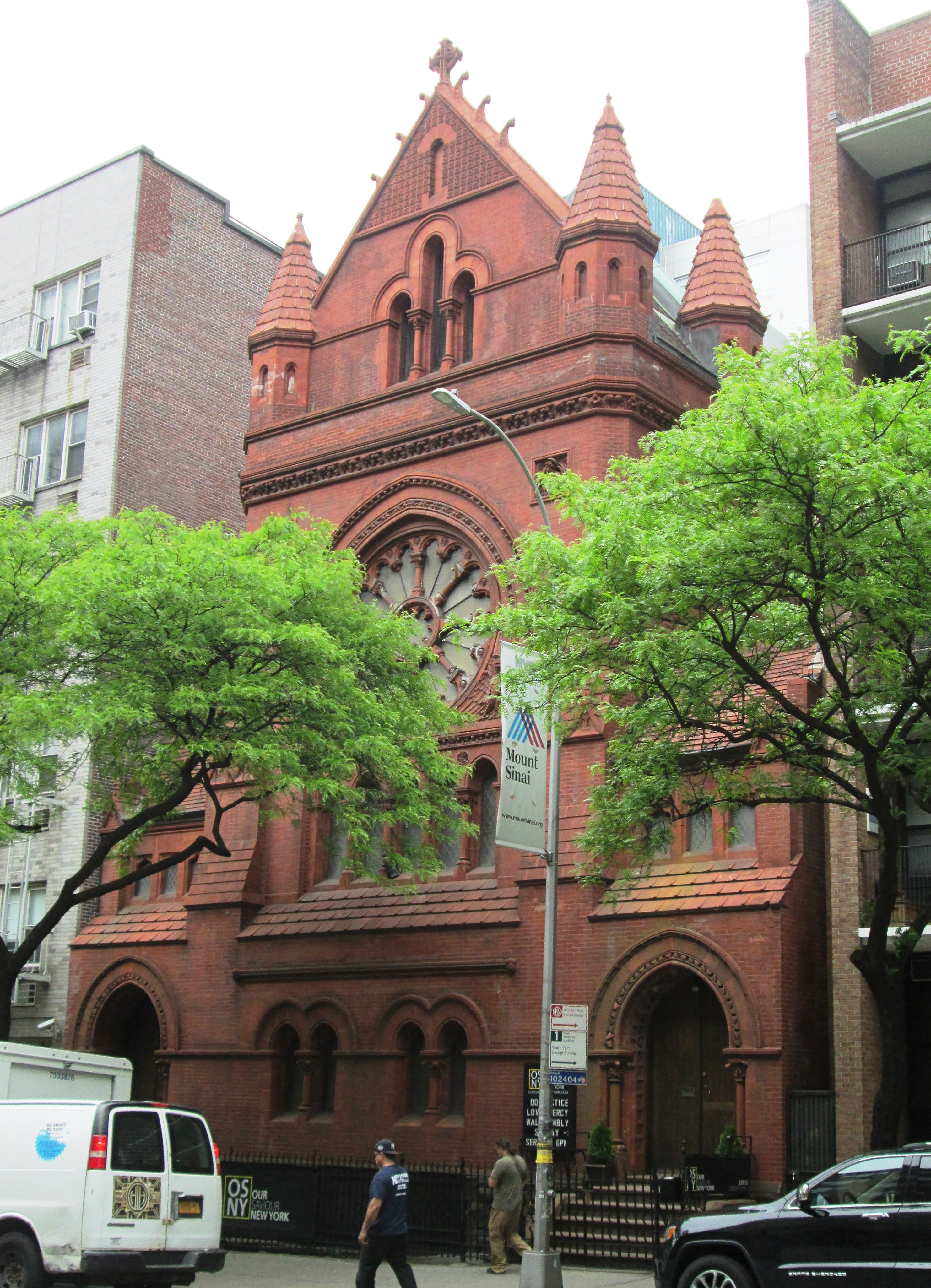 Our Saviour New York at 417 West 57th Street between Ninth and Tenth Avenues in the Hell's Kitchen (Clinton) neighborhood of Manhattan, New York City was built in 1886-87 and was designed by Francis Hatch Kimball in the Victorian Gothic style for the Catholic Apostolic Church. In 1995 it became the Lutheran Life's Journey Ministries, and then was rededicated in 1997 as the Church for All Nations. (Source: From Abyssinian to Zion) It is now (2018) Our Saviour New York.